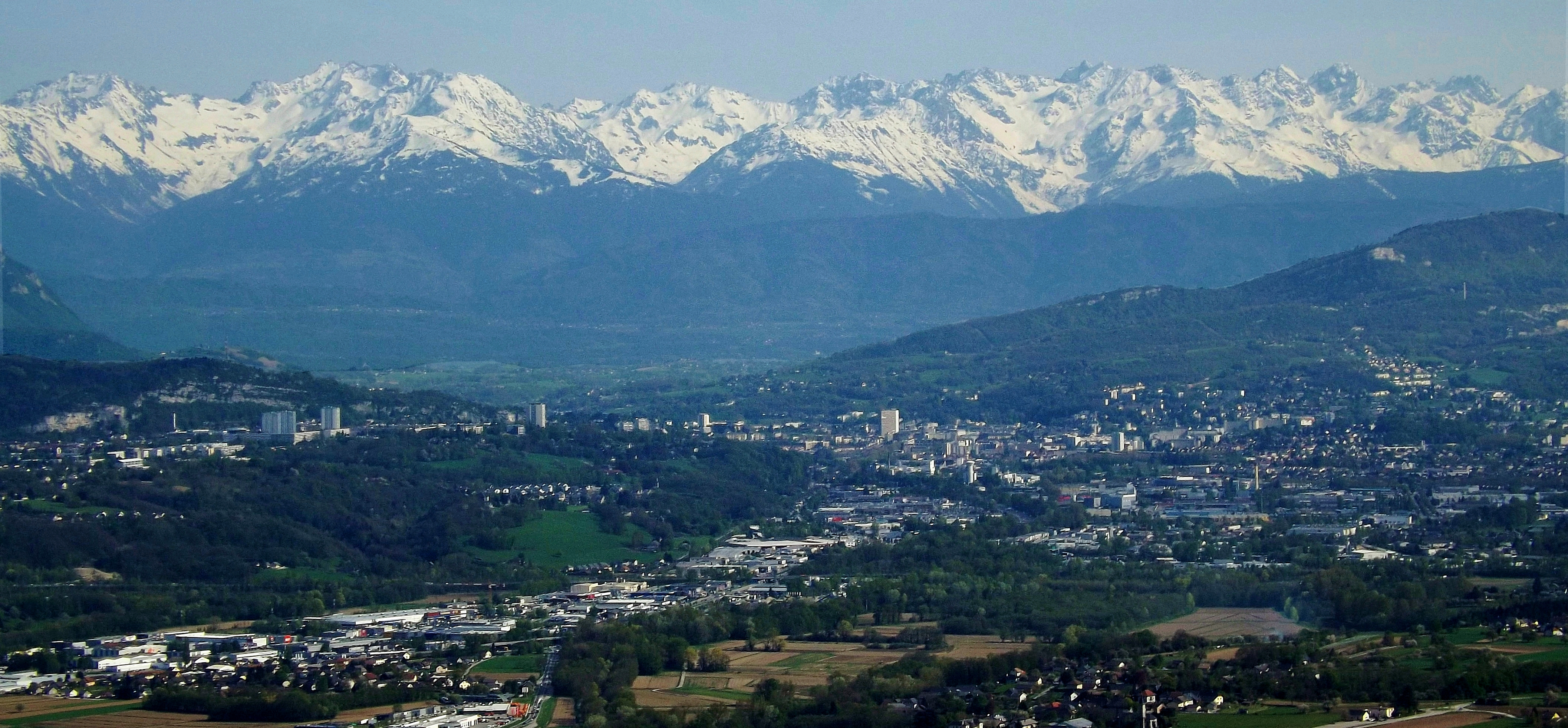 Panoramic sight (from the Mont du Chat mount) of nearly entire commune of Chambéry and the chaîne de Belledonne mountains, in Savoie, France.